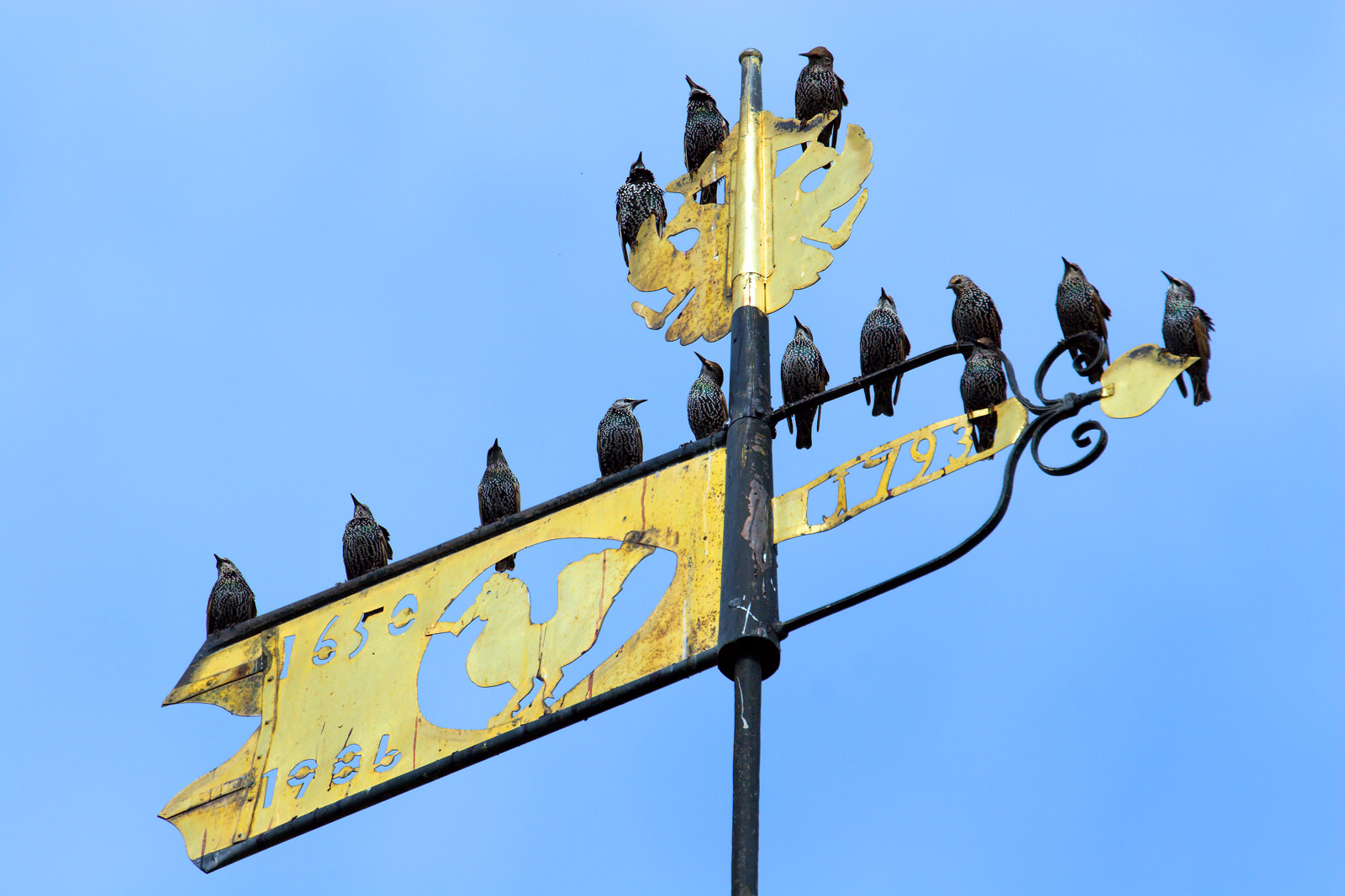 Fortified church Walldorf, spire in the autumn